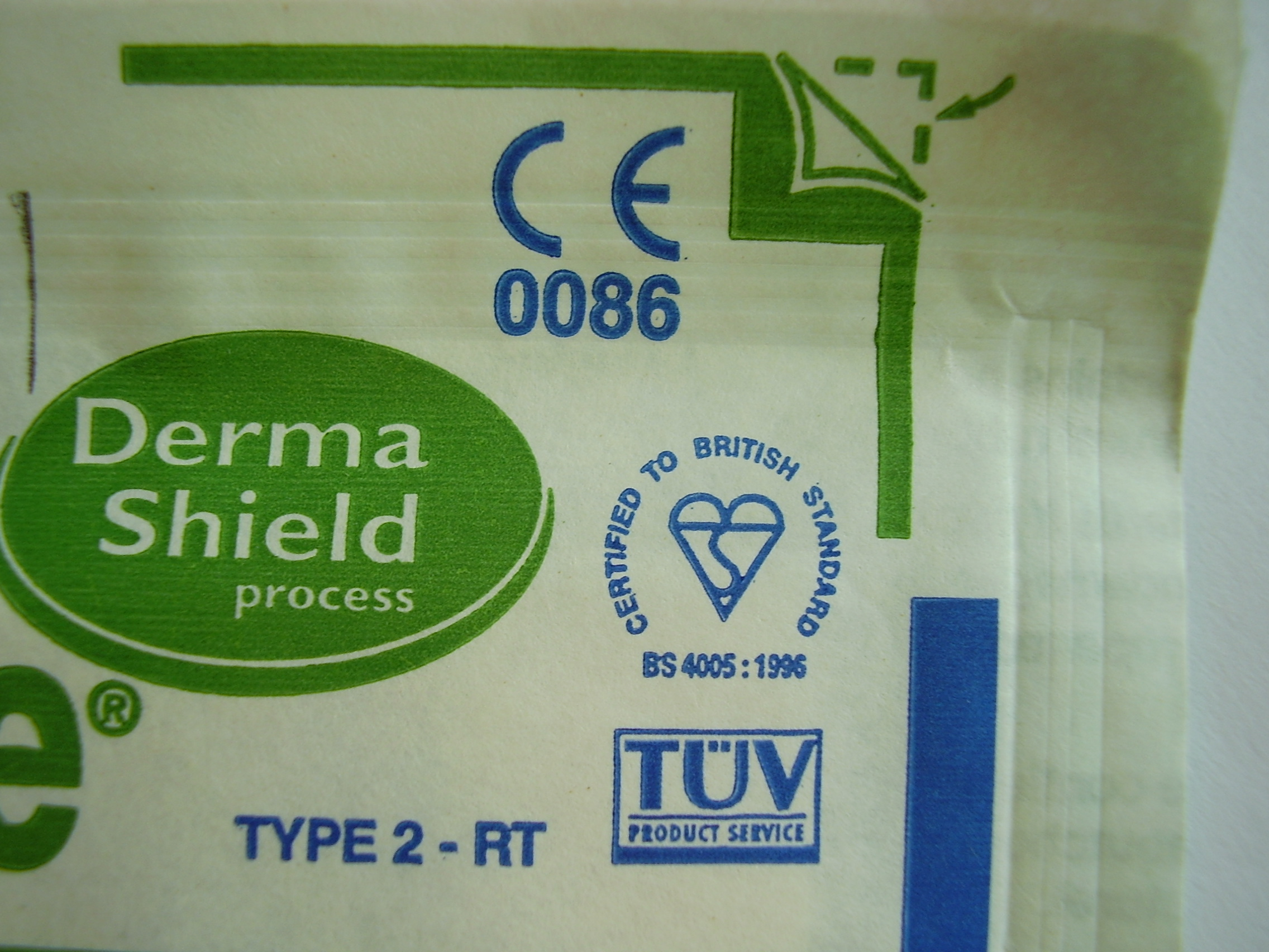 Disposable gloves; surgical gloves; chirurgische Handschuhe; steril; Latexhandschuhe